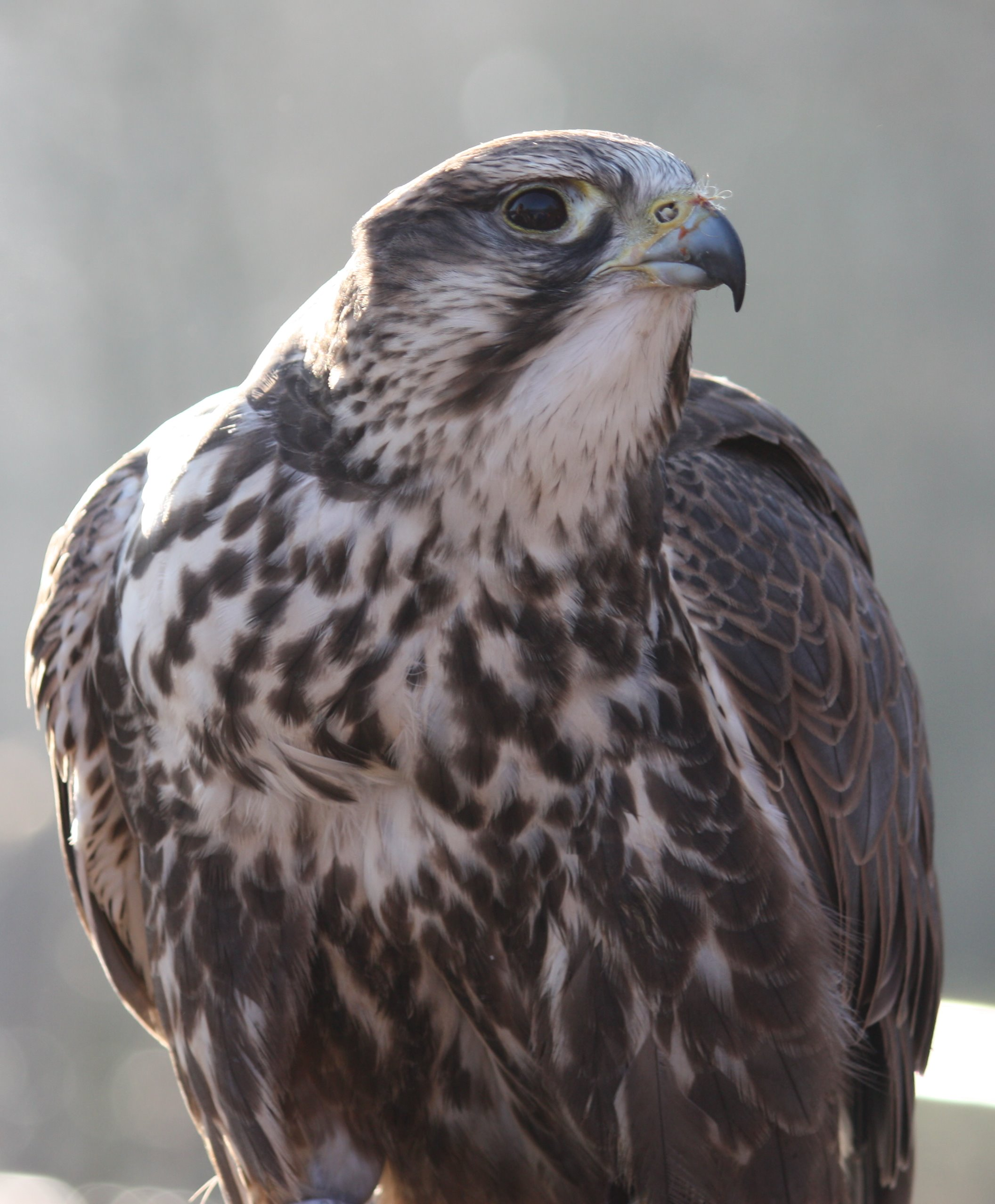 Saker falcon (Cropped Version).